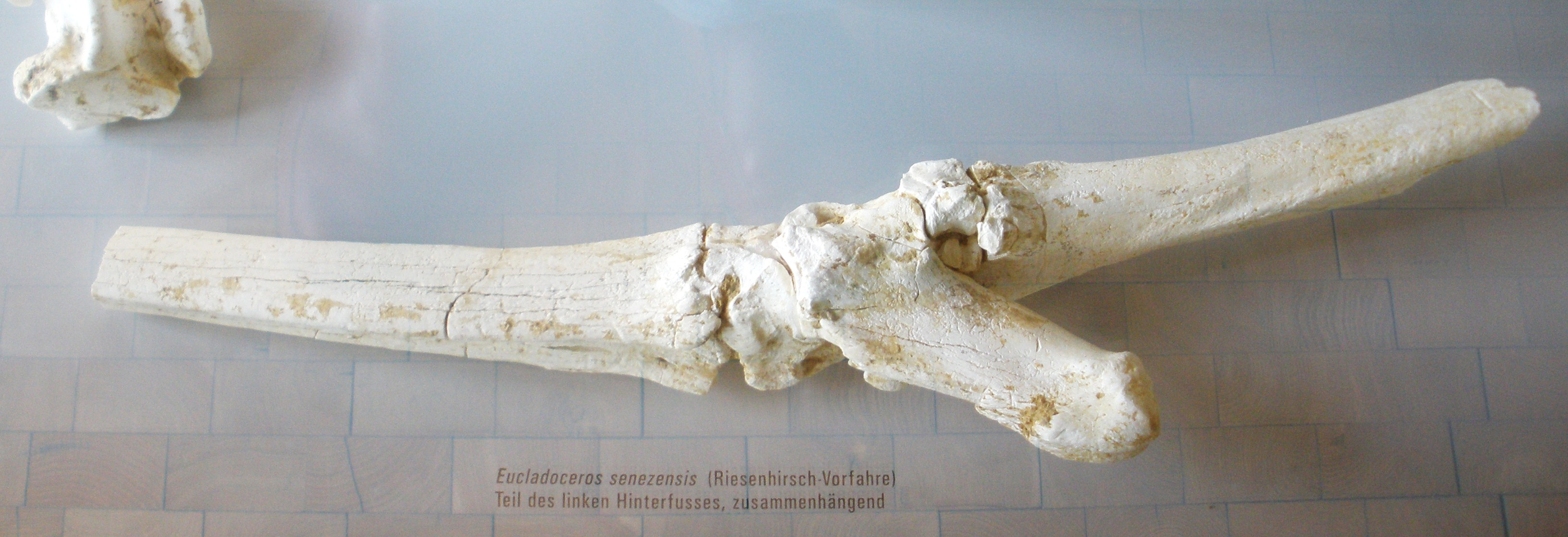 fossil of Eucladoceros